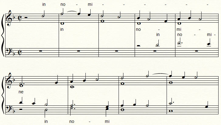 John Taverner. Mass "Gloria tibi Trinitas", Benedictus fragment ('in nomine')